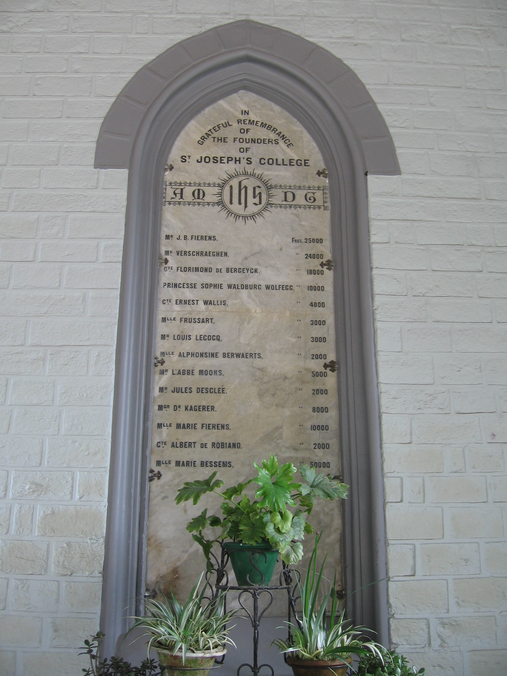 At the entrance of the school has been fixed a Thanksgiving mémorial slab with the names of the benefactors (allmost all are Belgians) who contributed most to the erection of the building (1890).